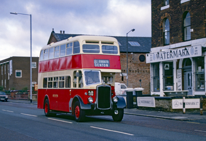 Preserved North Western Bristol K5G ECW in Cheetham Hill Road, Manchester. Fleet number 432, registration number AJA 152. Built 1939. Scanned from a Fujichrome 35mm slide.